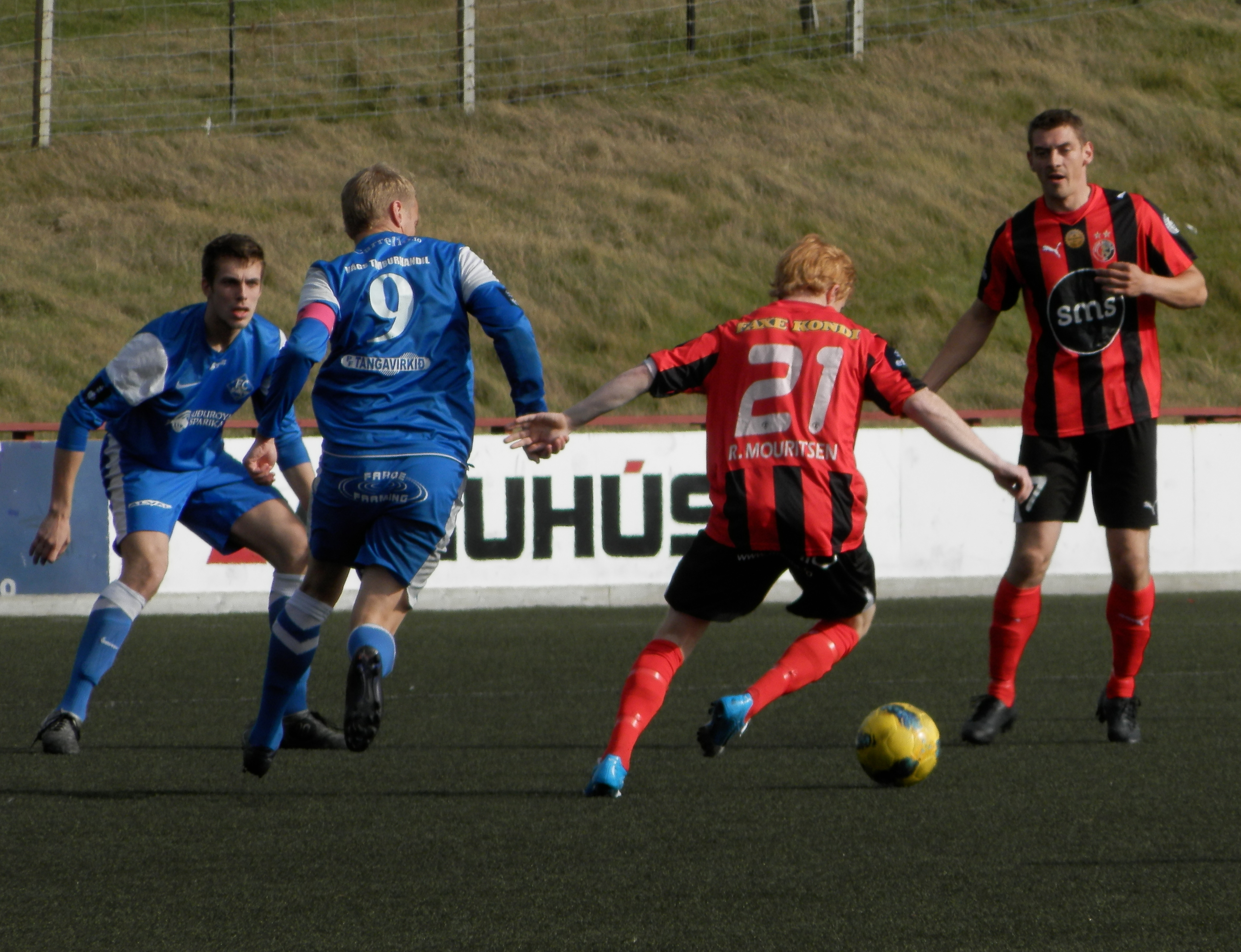 Football match in the men's best division of the Faroe Islands, which currently (2012) is called Effodeildin. The players in blue play for FC Suðuroy, they are Heini Vatnsdal and Palli Augustinussen. The players in Red/Black are HB Tórshavn players, number 21 is Kristin Restorff Mouritsen and number 7 is Fróði Benaminsen, who also playes on the Faroe Islands national team. Heini Vatnsdal played on the U21 team in 2011-2012. Føroyskt: Fótbóltsdystur á Eiðinum í Vági millum FC Suðuroy og HB. Leikararnir á myndini eru frá vinstru: Heini Vatnsdal, Palli Augustinussen, Kristin R. Mouritsen og Fróði Benjaminsen. HB vann dystin 4-0.